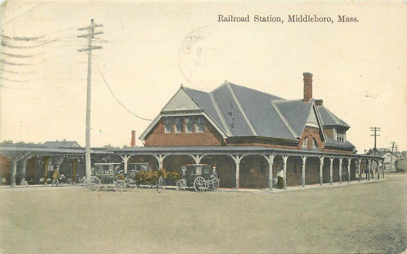 Early divided back postcard of Middleborough station, postmarked 1911